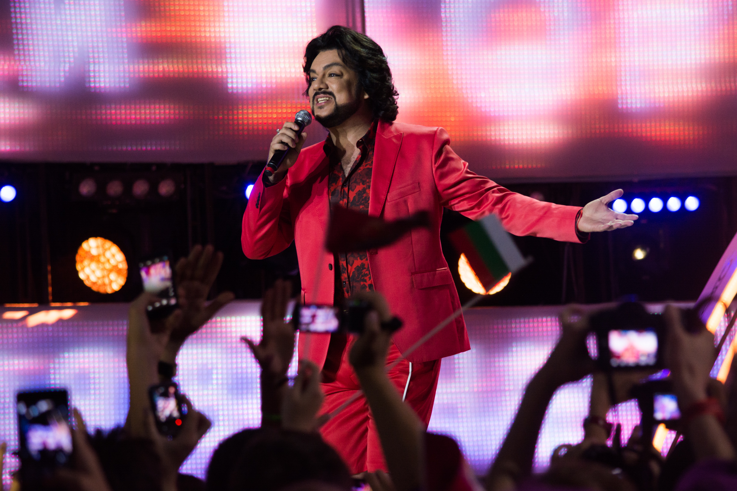 Philipp Kirkorov at New Wave Junior 2015